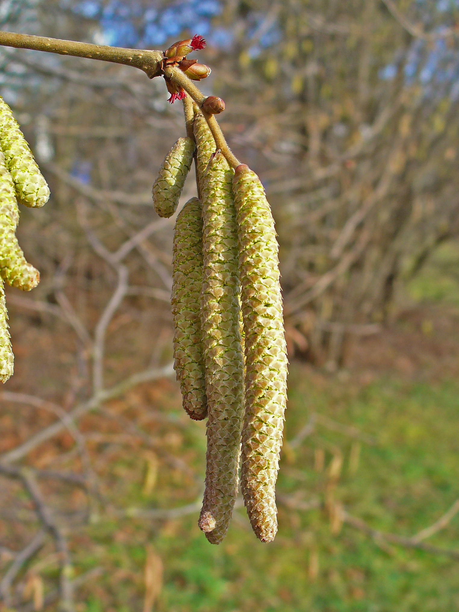 Corylus avellana, Betulaceae, Common Hazel, male and female inflorescences; Karlsruhe, Germany.